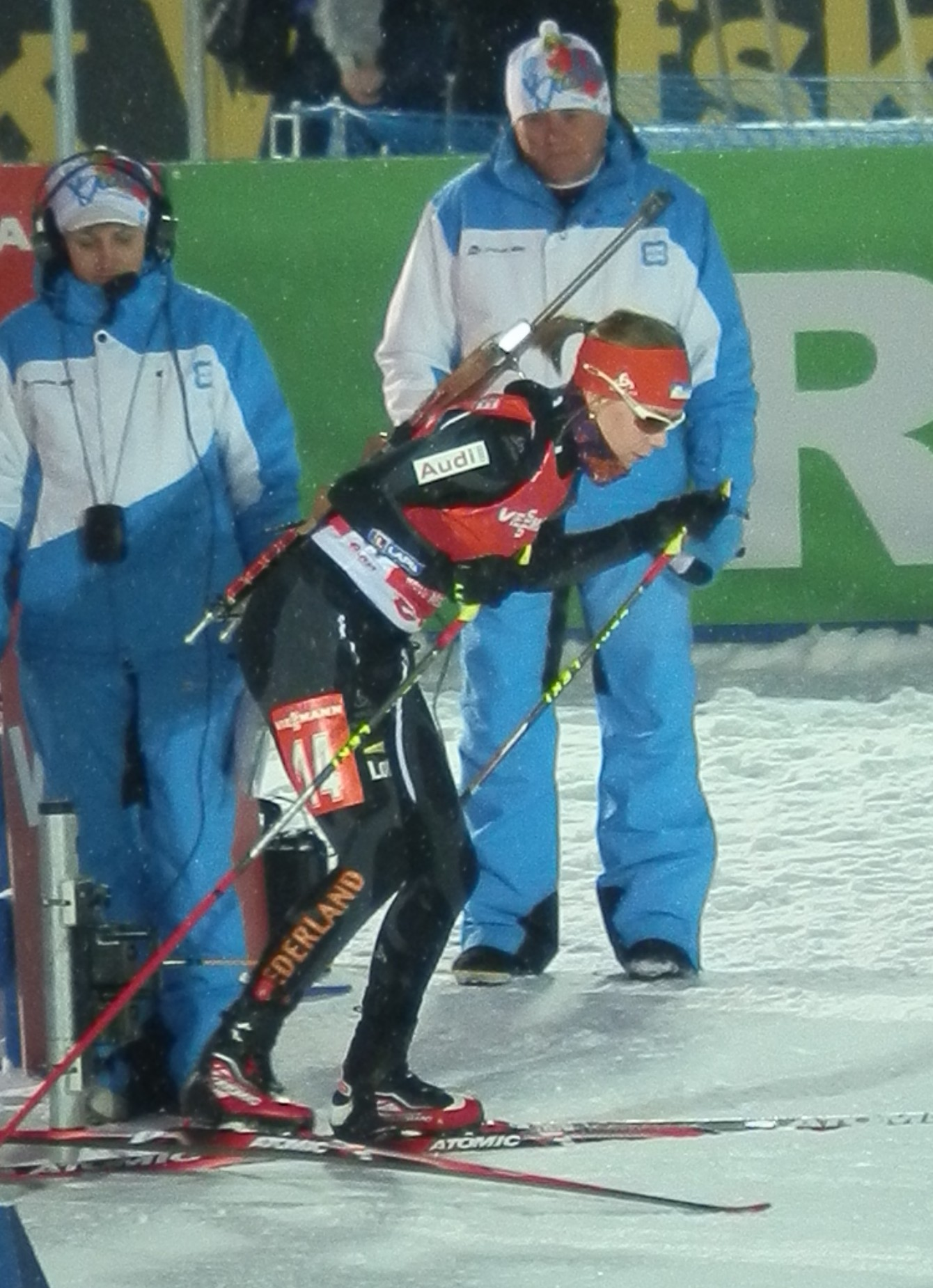 Dutch Chardine Sloof at the start of her first WC competition, 2013